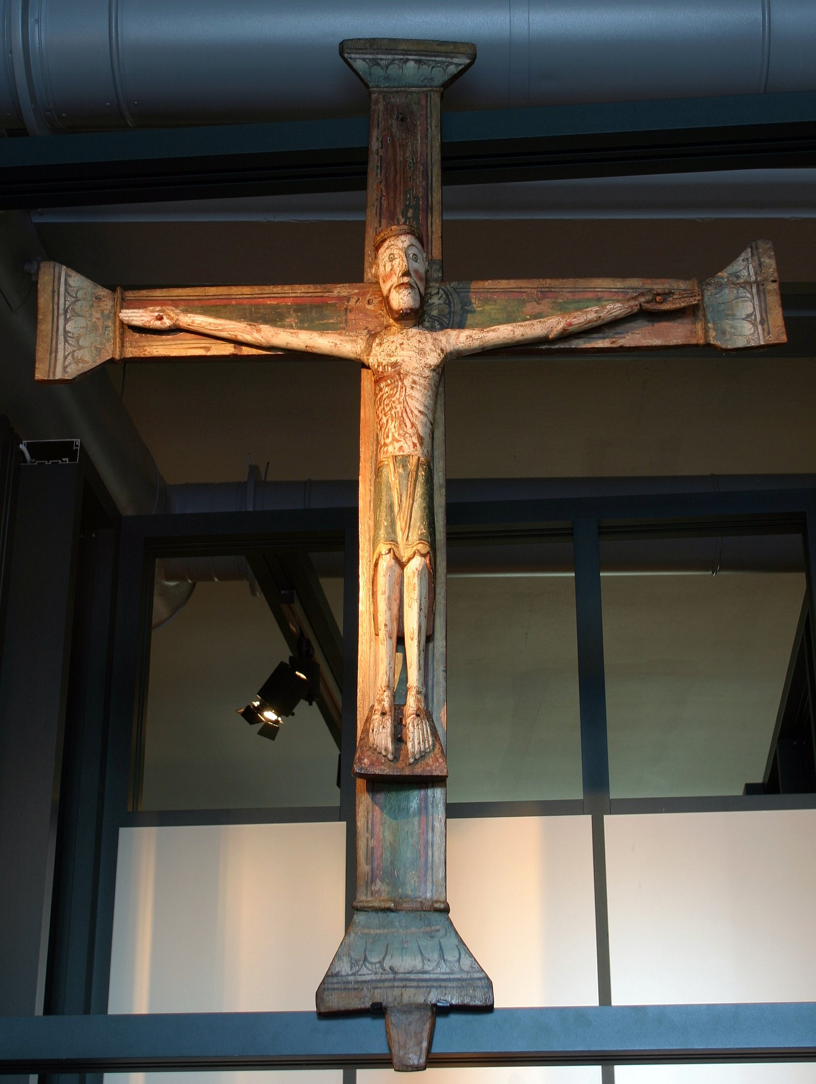 NORWEGIAN: MOTIV: Kristus (krusifiks) PERIODE: ca. 1150 FUNNSTAD: Leikanger kyrkje KOMMUNE: Leikanger ENGLISH: Crucifix - Jesus Christ. From around year 1150 A.D. Found i Leikanger Church, by Sognefjorden, Western Norway. Exhibited in Bergen museum.